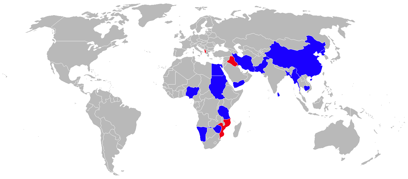 Chengdu J-7 Operators 2010 (former operators in red)